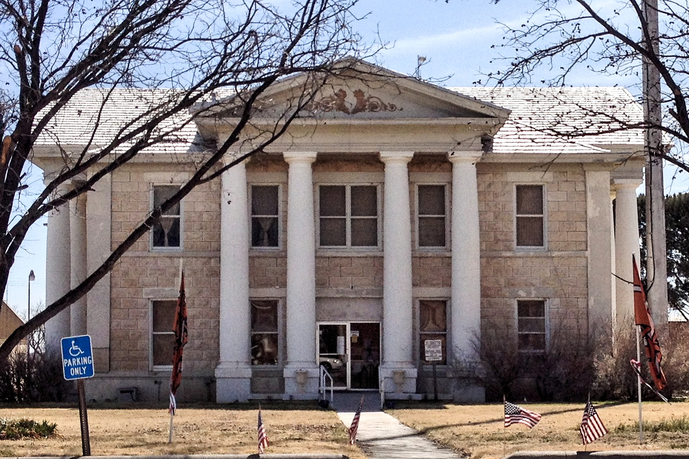 Glasscock County Courthouse Garden City Texas